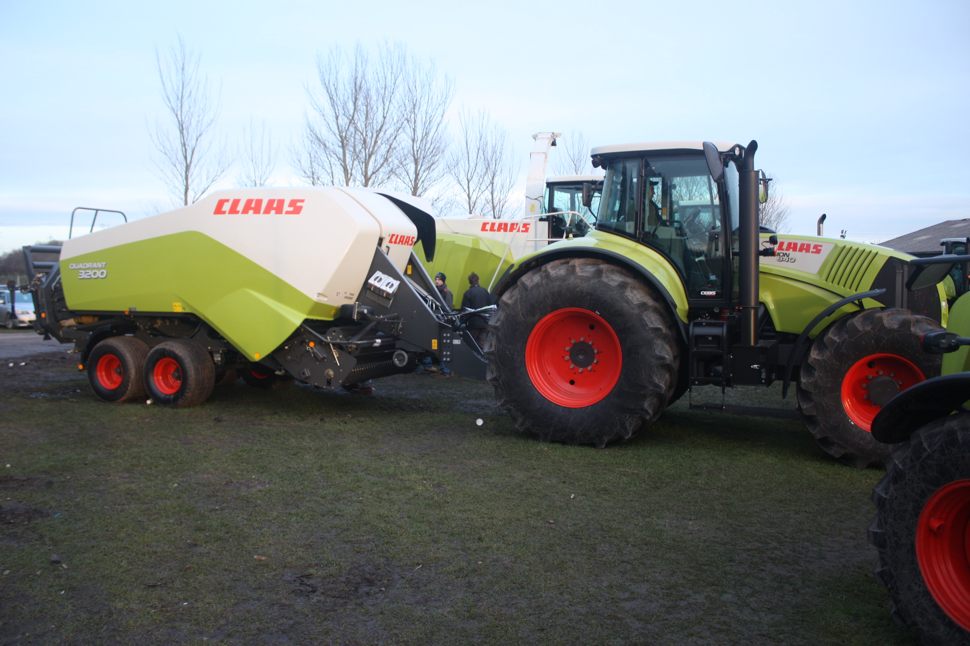 A Claas Quadrant 3200 square baler and Claas Axion 840 tractor at the LAMMA show (Lincolnshire Agricultural Machinery Manufacturers Association Show) in 2009, England